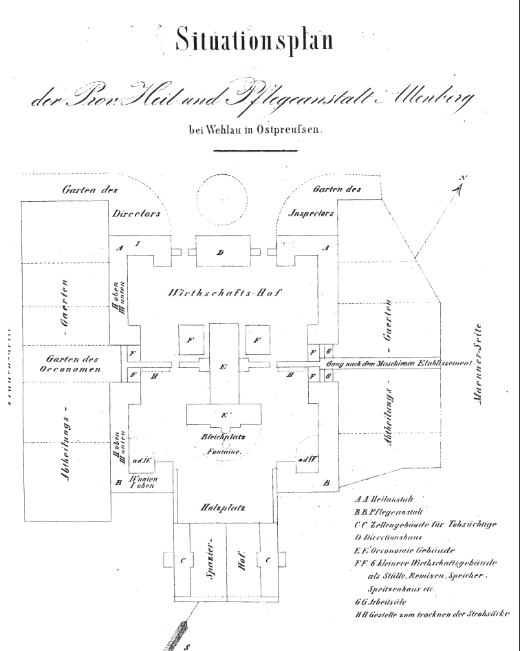 Provinzial Heil- und Pflegeanstalt Allenberg